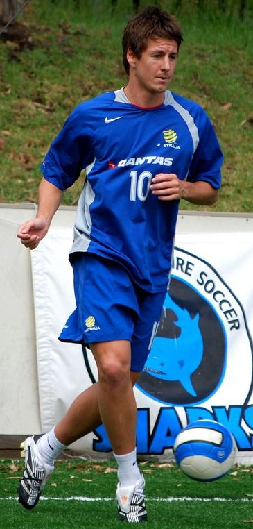 Nathan Burns at Olyroos training.